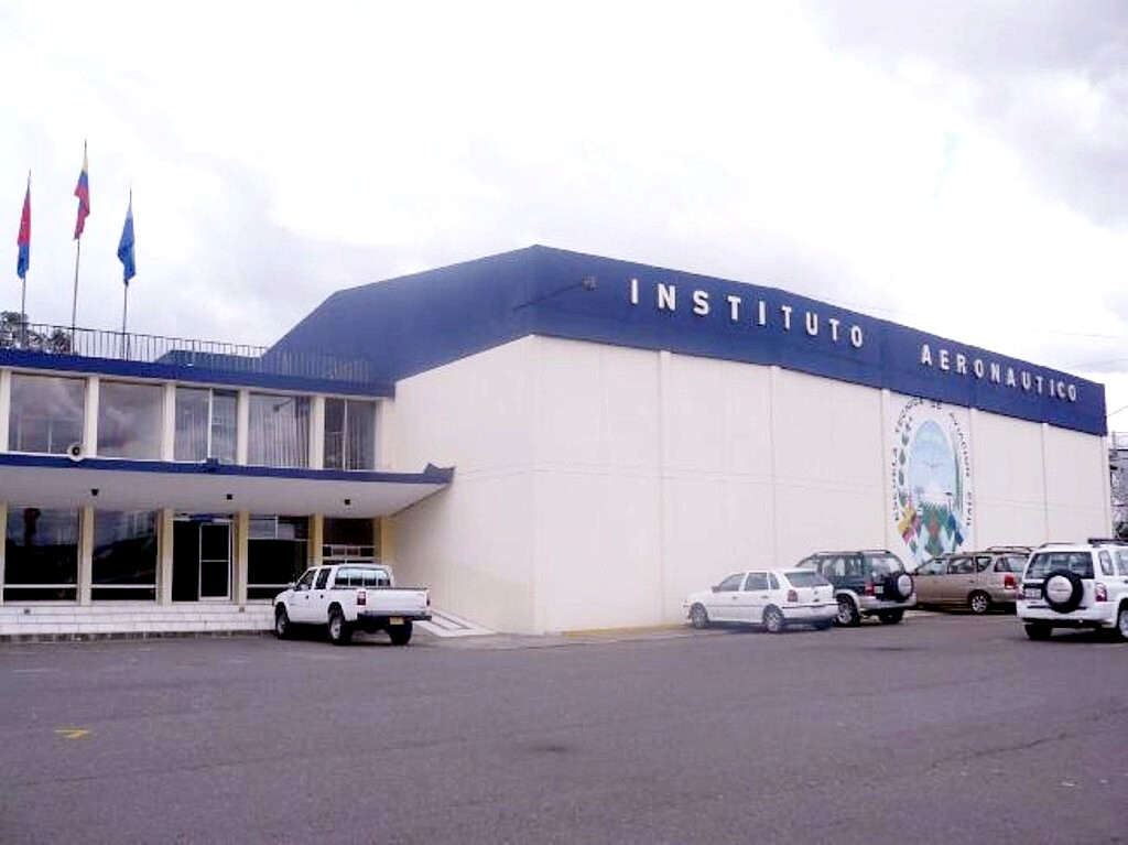 COTAC - Administrative Building